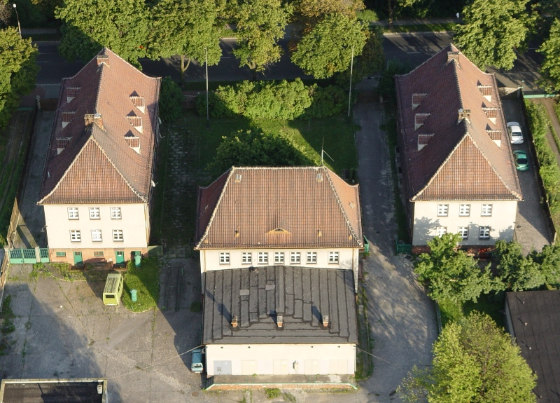 The Gliwice Radio Station